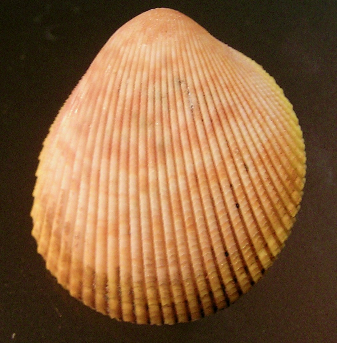 Acrosterigma cygnorum (Deshayes, 1855), family Cardiidae; Southern Australia